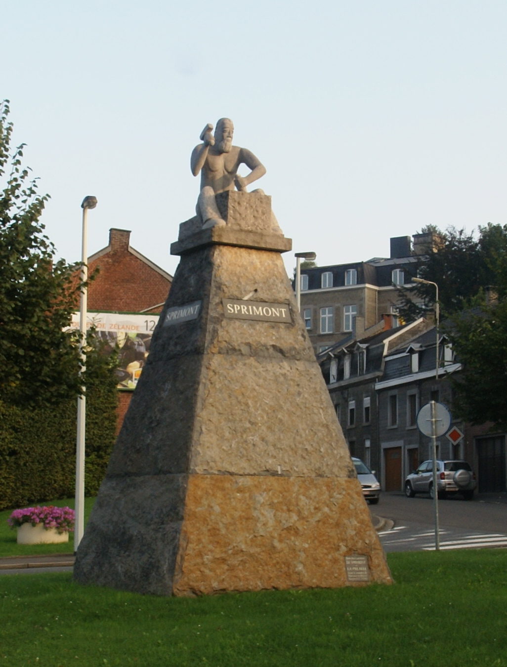 Sprimont (Belgium): Monument to the stonecutters